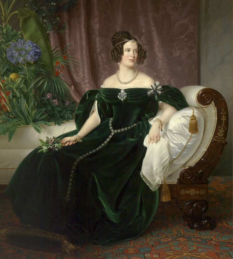 Марианна Оранская-Нассау, принцесса Прусская